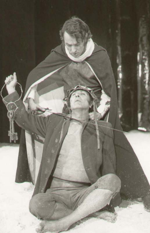 Scanned period photograph of Aureliu Manea's production of Macbeth, Romania, 1970s